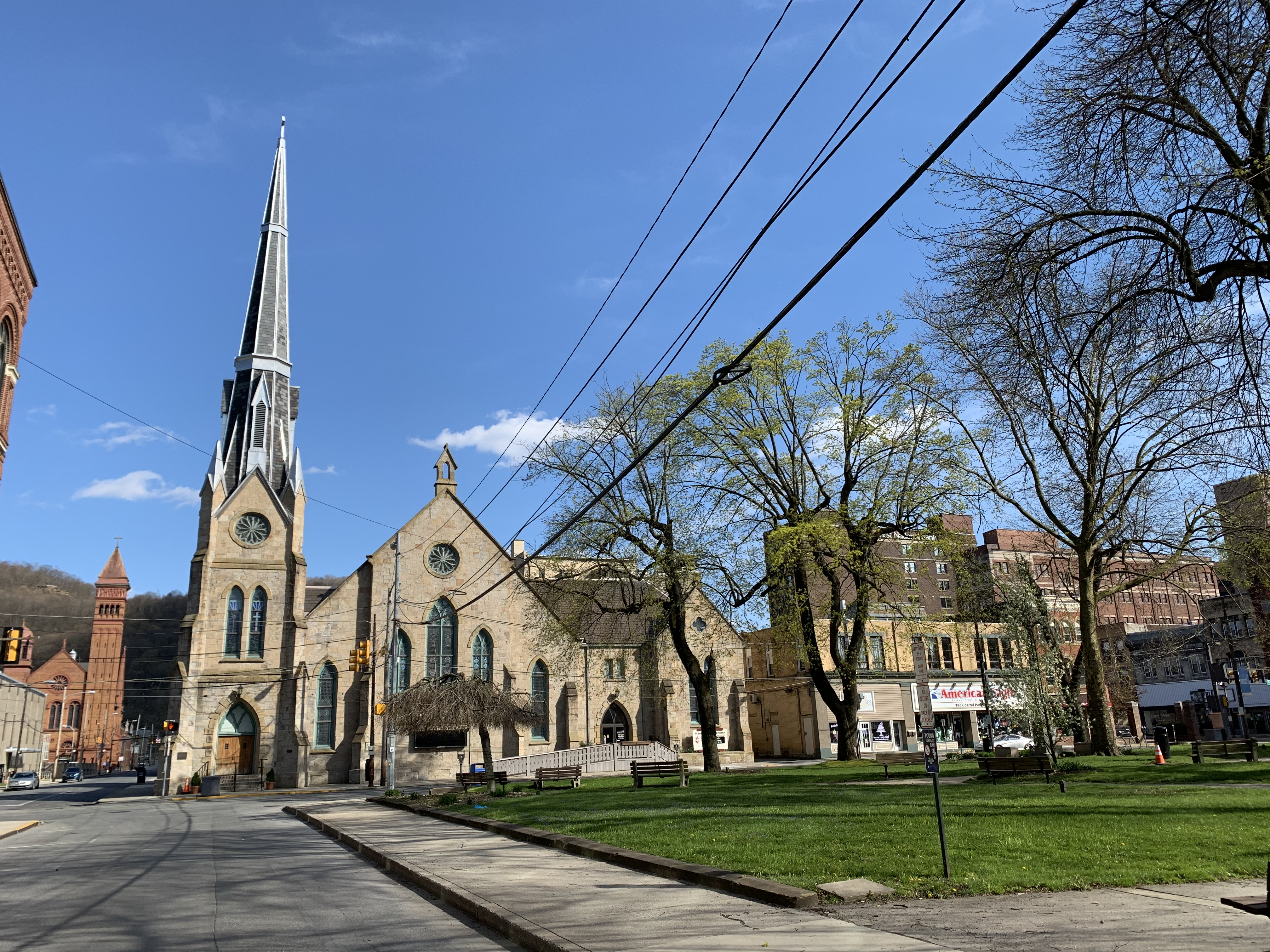 Historic Franklin Street UMC (First Methodist Episcopal) Johnstown, PA, credited with splitting the wave and surviving the great 1889 Johnstown Flood